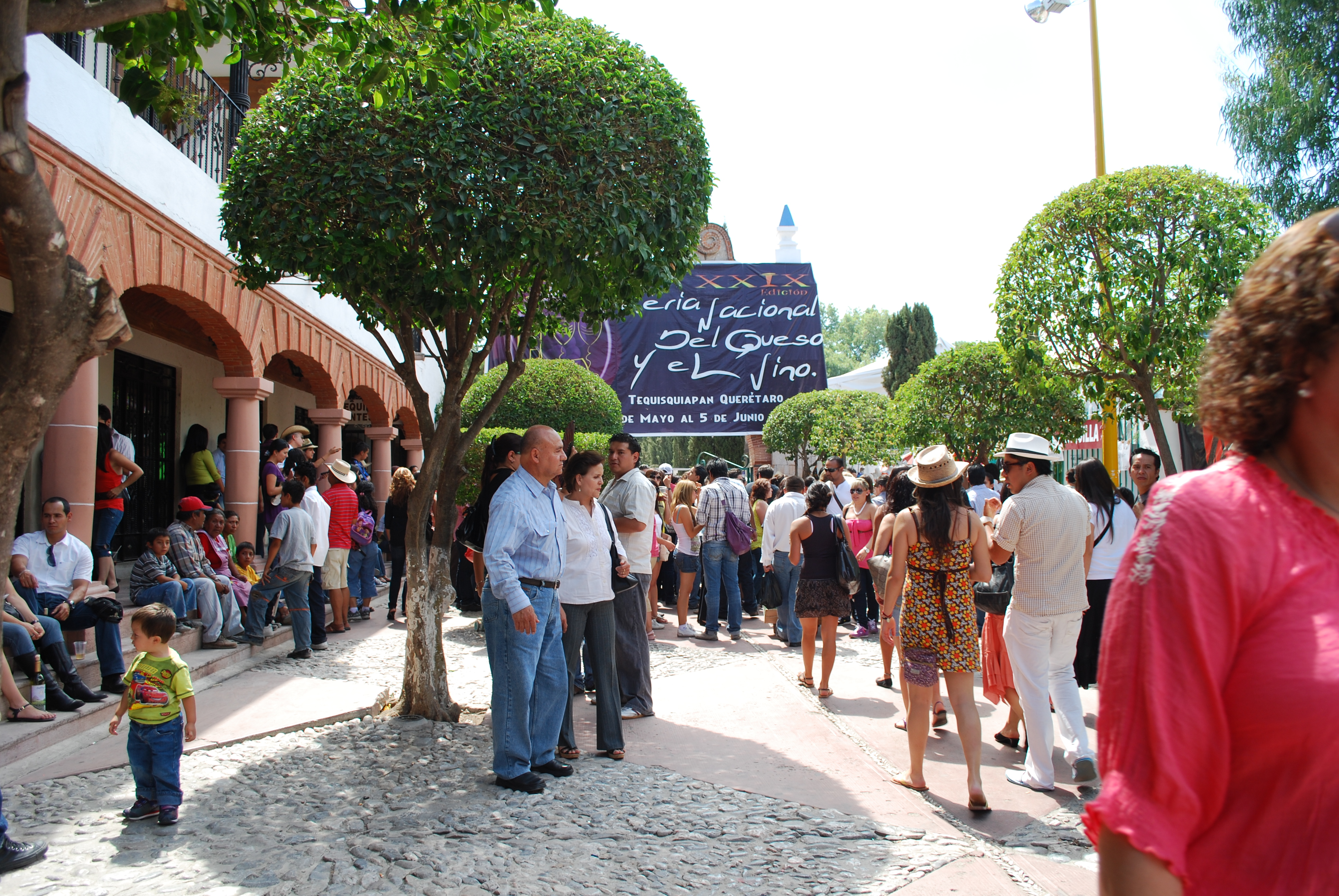 Entrance area of the Feria del Queso y el Vino in Tequisquiapan, Queretaro, Mexico